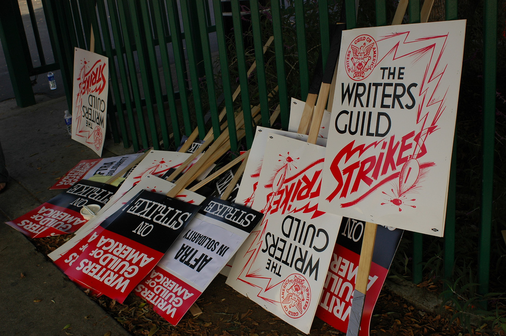 Sign creator: Sol Sigman Associate sign creator: Larry Krotchnick Executive in charge of signs: Mike Lubin Co Producer of Signs: Lisa Lefkowitz Asst. Co Producer of Signs: Norman Lear Exec. Co Producer of signs: Larry David Asst. Sign Producer to Asst: Linda Nudelman Sign segment producer: Jessica Jablonsky Asst. Sign Segment Producer: David Rivkin Sign Researcher: Rick Rafelman Legal Advisor for Sign Researcher: Rina Katz Levy Font casting: Dylan Hymowitz A.S.C. Special thanks to "Van Nuys Cardboard and Paper", "That's My Stick", "Green Fences, Inc.", "Red Ink Enterprises", Black/Red/White Productions.